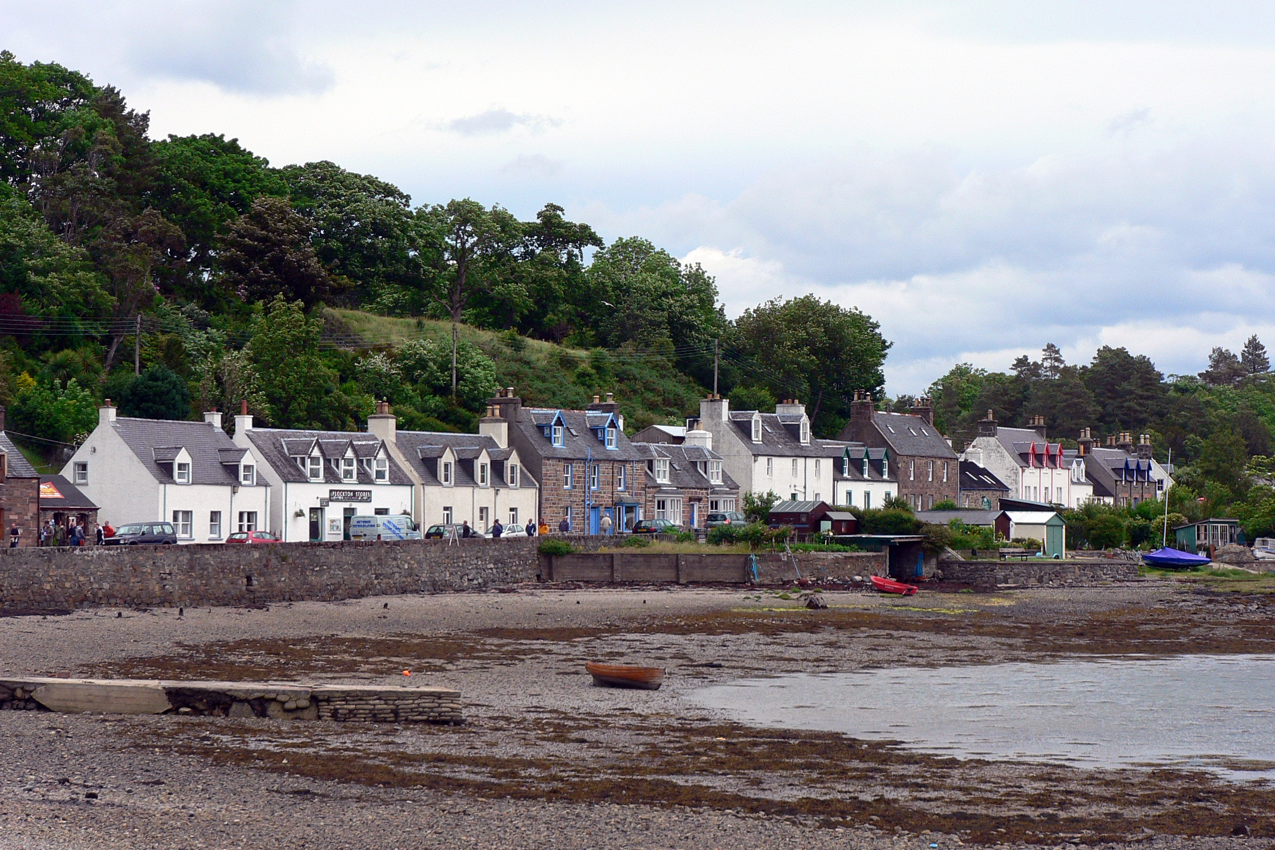 Plockton, Scotland